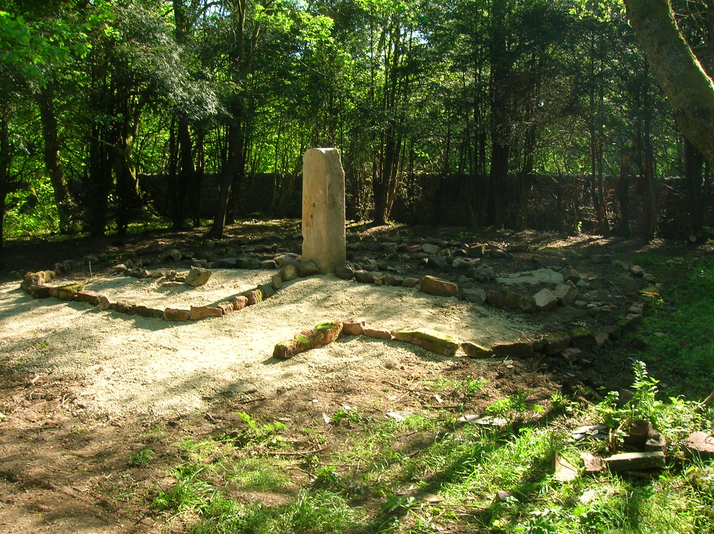 The Spier's labyrinth at the Garden of Remembrance, Beith, North Ayrshire, Scotland